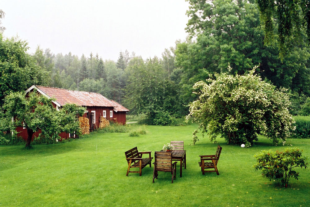 A rainy day in the Swedish countryside